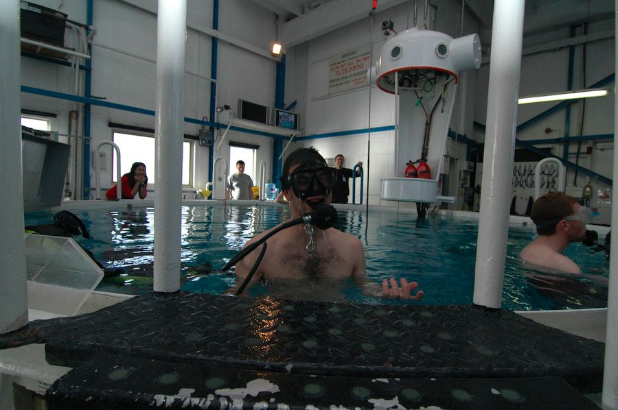 Surface of the Submarine Escape Training Tower (SETT) at HMNB Portsmouth